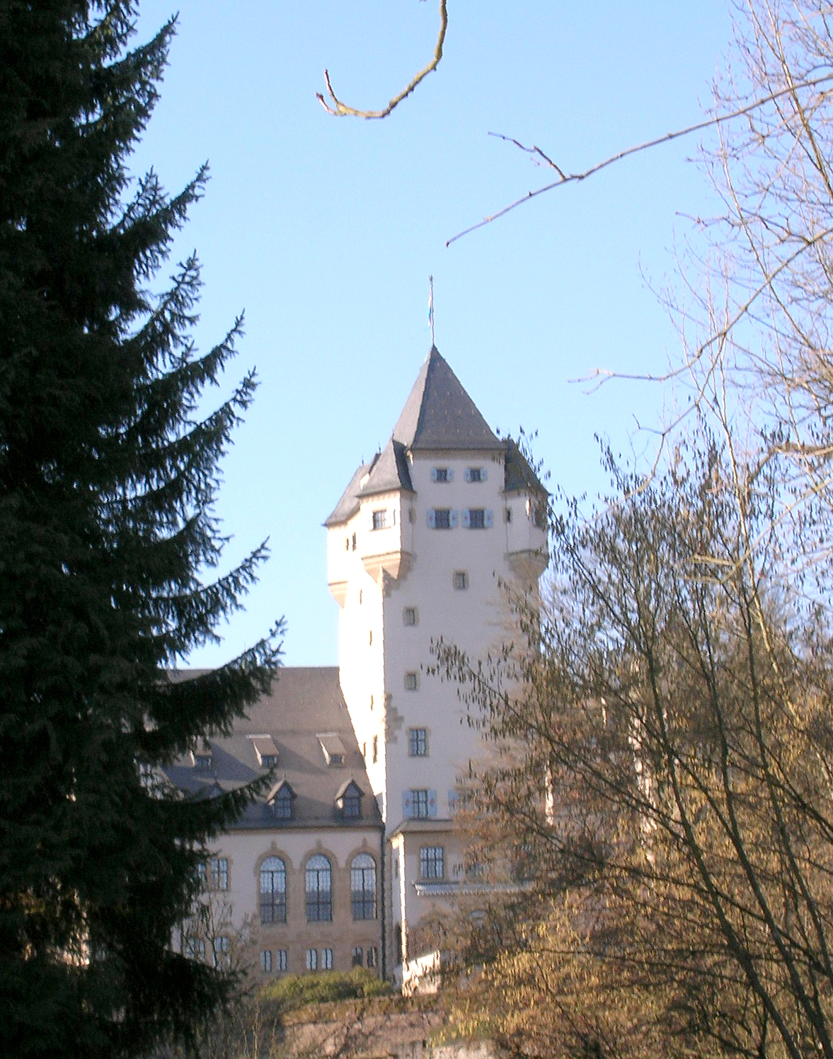 Berg Castle, principal residence of the Grand Duke of Luxembourg.